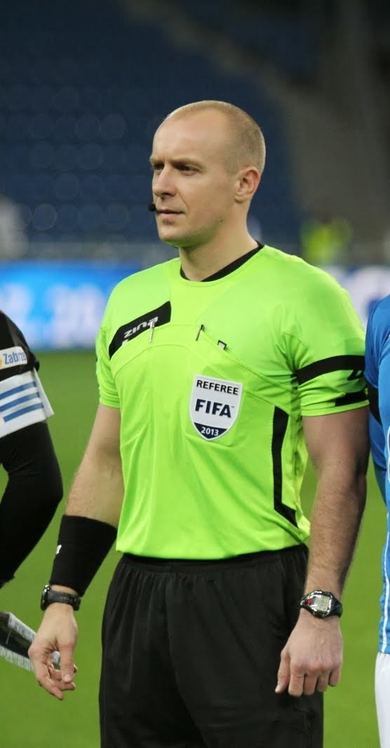 Szymon Marciniak, Polish football referee, before Lech Poznań - Górnik Zabrze.